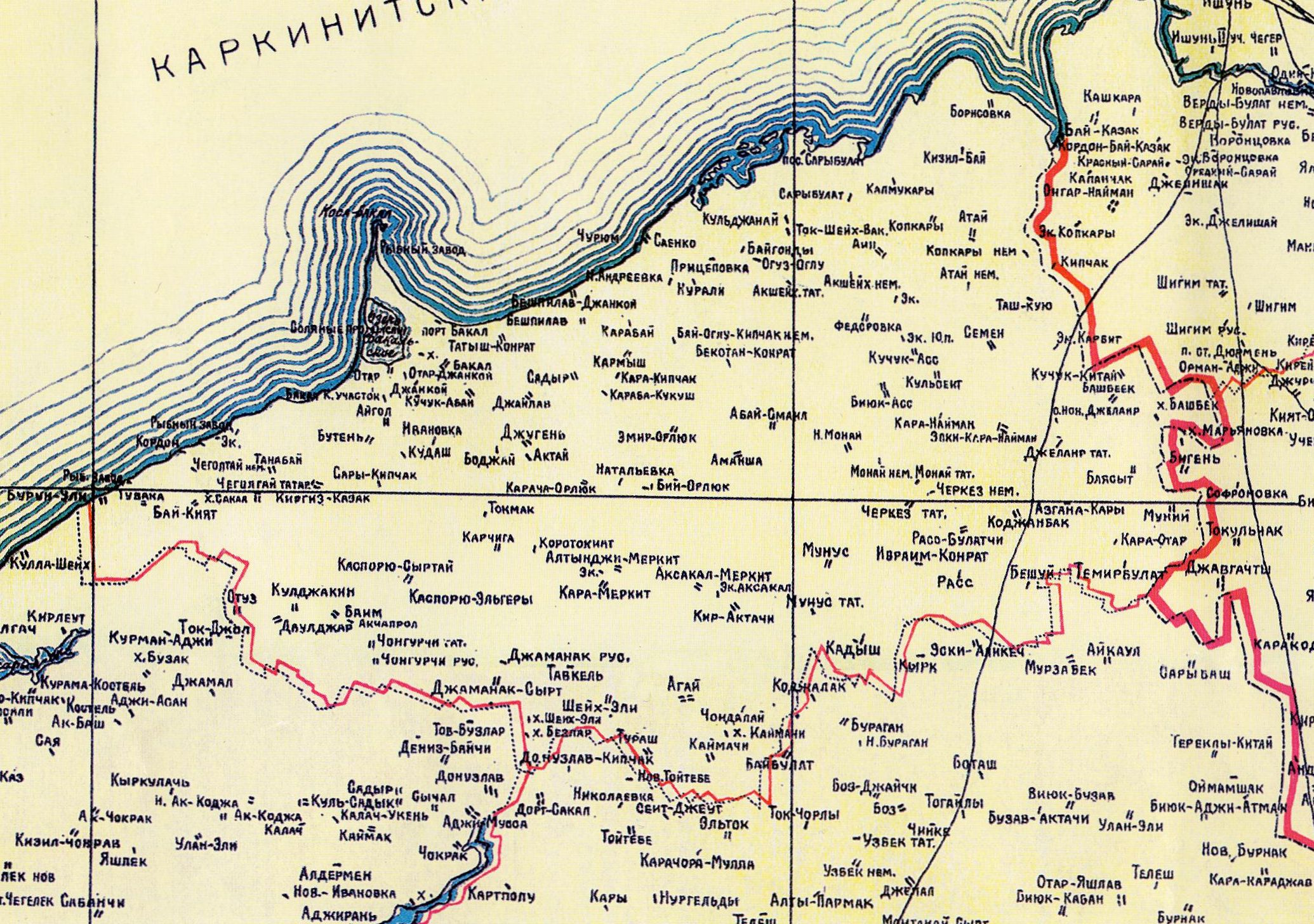 Bakkalskiy raion, Crimea, 1922